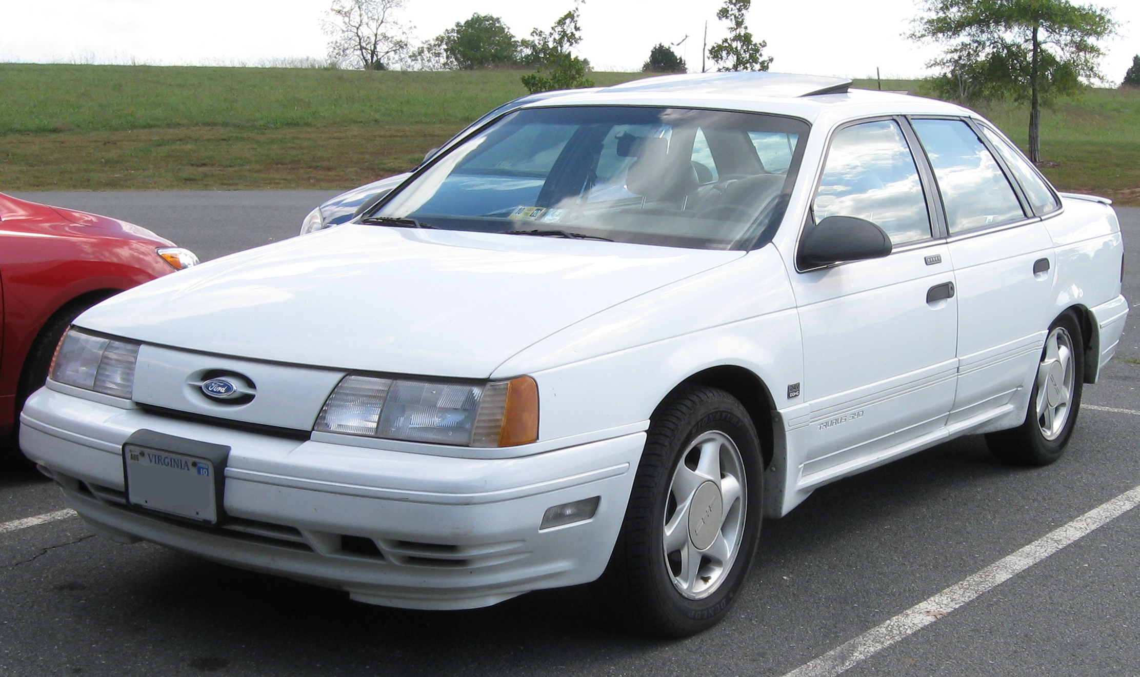 Ford Taurus SHO photographed in Manassas, Virginia, USA.